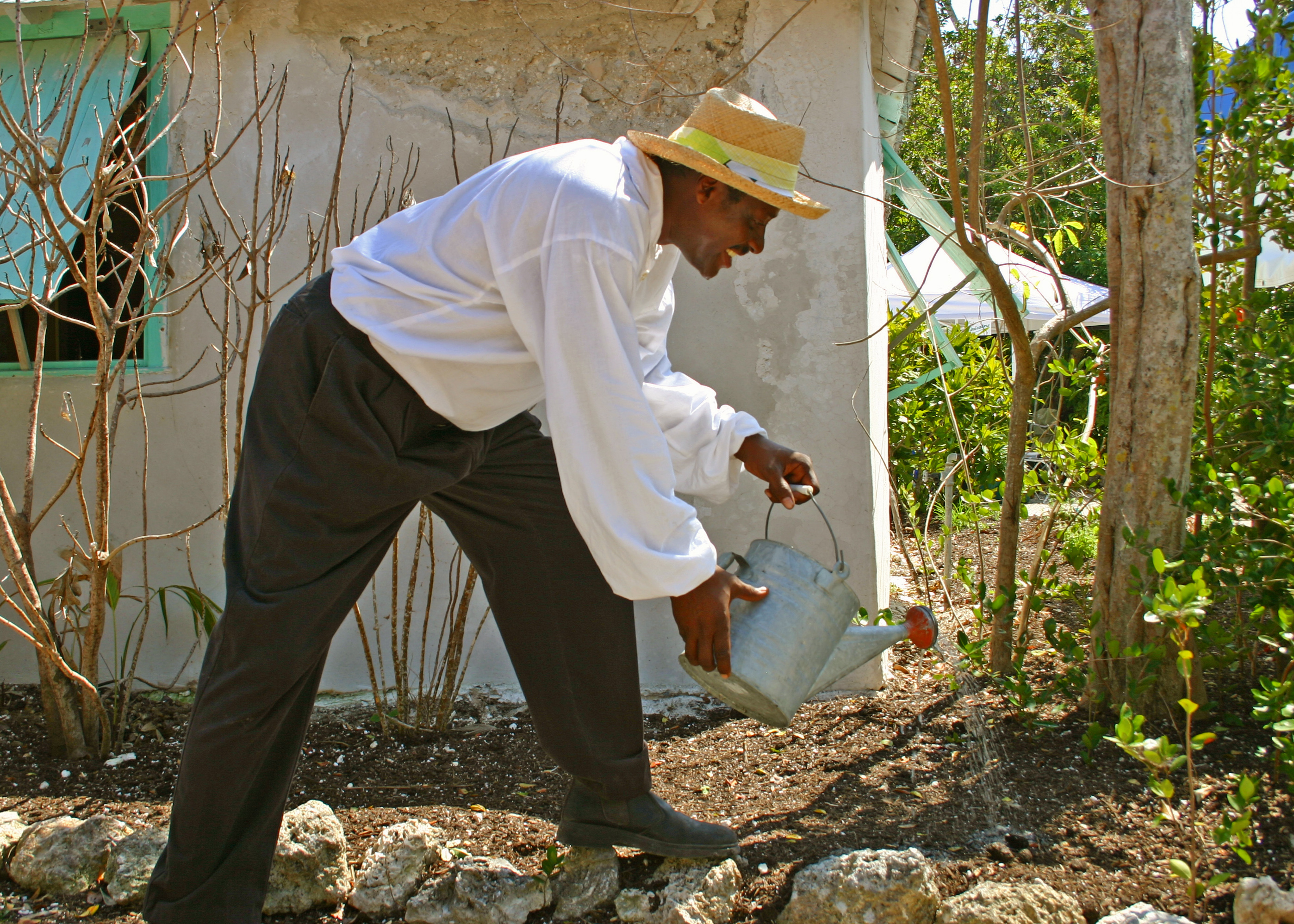 Picture of reenacter doing George Adderley at Crane Point's Bahamian Heritage Festival